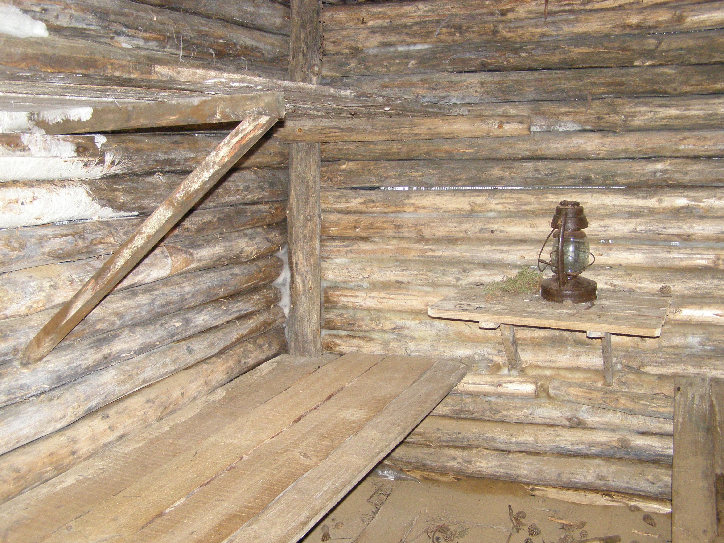 Žibininkai, Kretinga district, LithuaniaLietuvių: Narimanto kuopos partizanų žeminėje Vilimo kalne, Žibininkų k., Kretingos rajonas, Lietuva